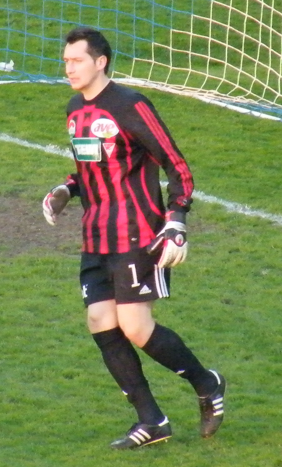 Vukašin Poleksić football player from Montenegro